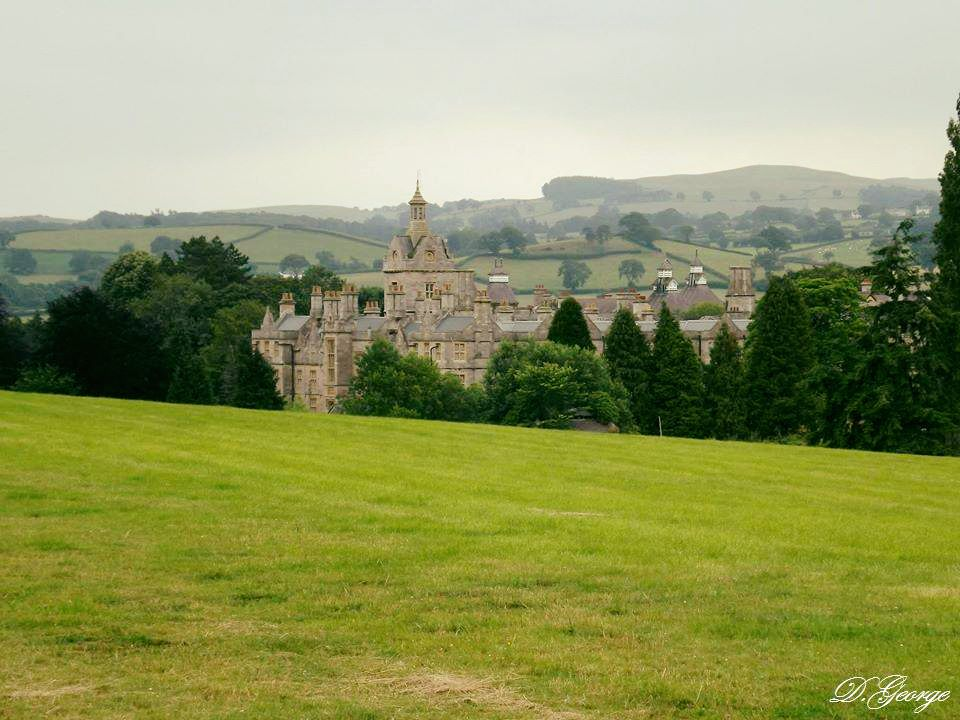 The old hospital in Denbigh.